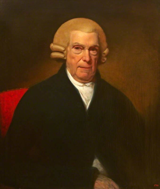 Portrait of Joseph Warner (1717–1801), British surgeon and plantation owner.